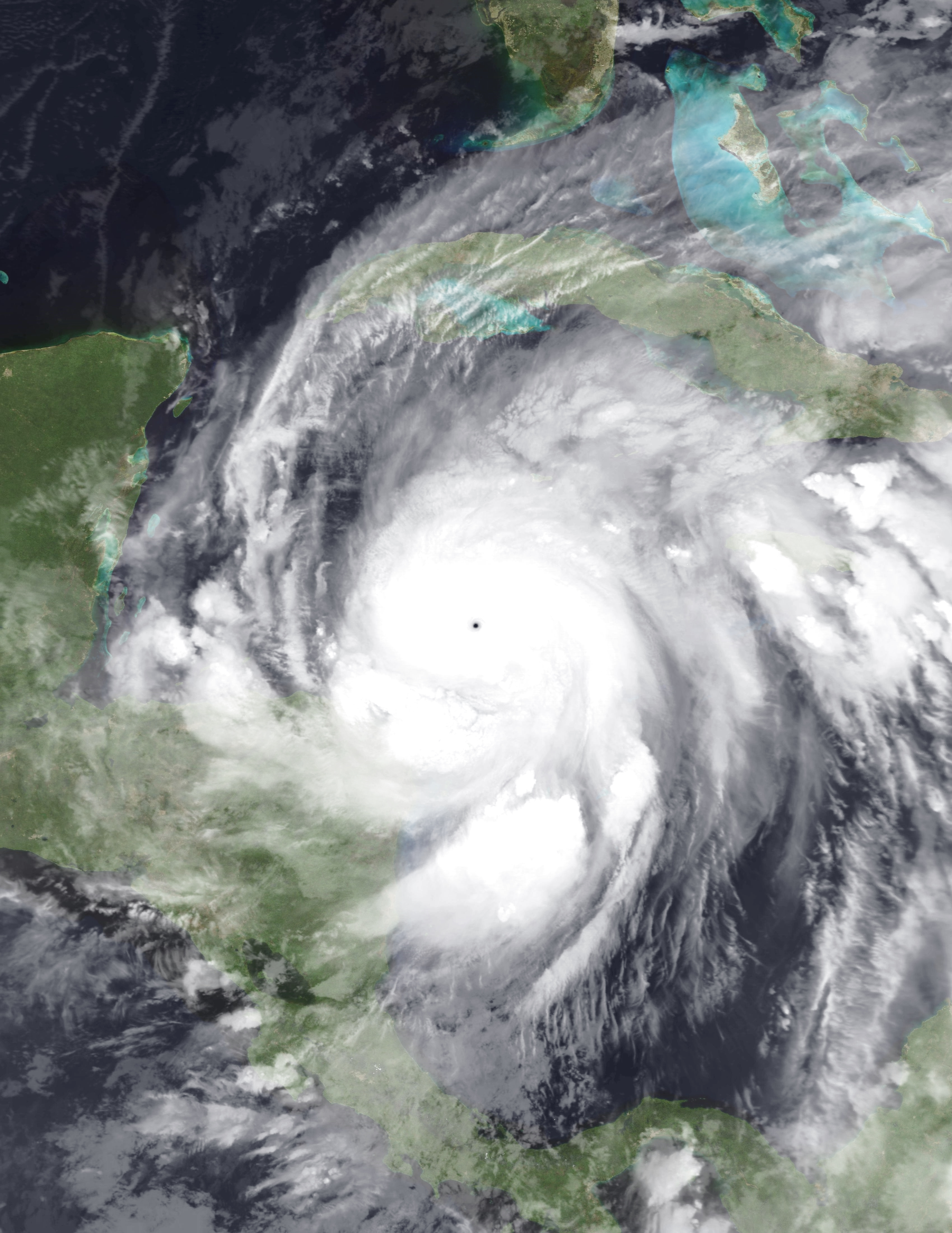 Hurricane Wilma at its record-breaking intensity on October 19, 2005 northeast of Honduras. At the time, maximum sustained winds were nearing 160 knots and the pressure was at 882 mbar, the lowest on record for a storm in the Atlantic.